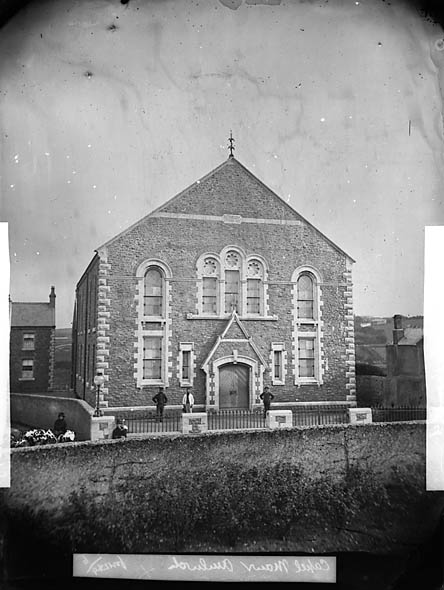 1 negative : glass, wet collodion, b&w ; 21.5 x 16.5 cm.